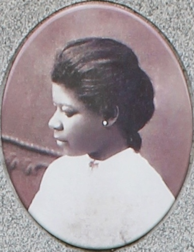 Photo of Pauline Oberdorfer Minor from her gravestone in Eden Cemetery, Collingdale, Pennsylvania. Photo taken July 2019